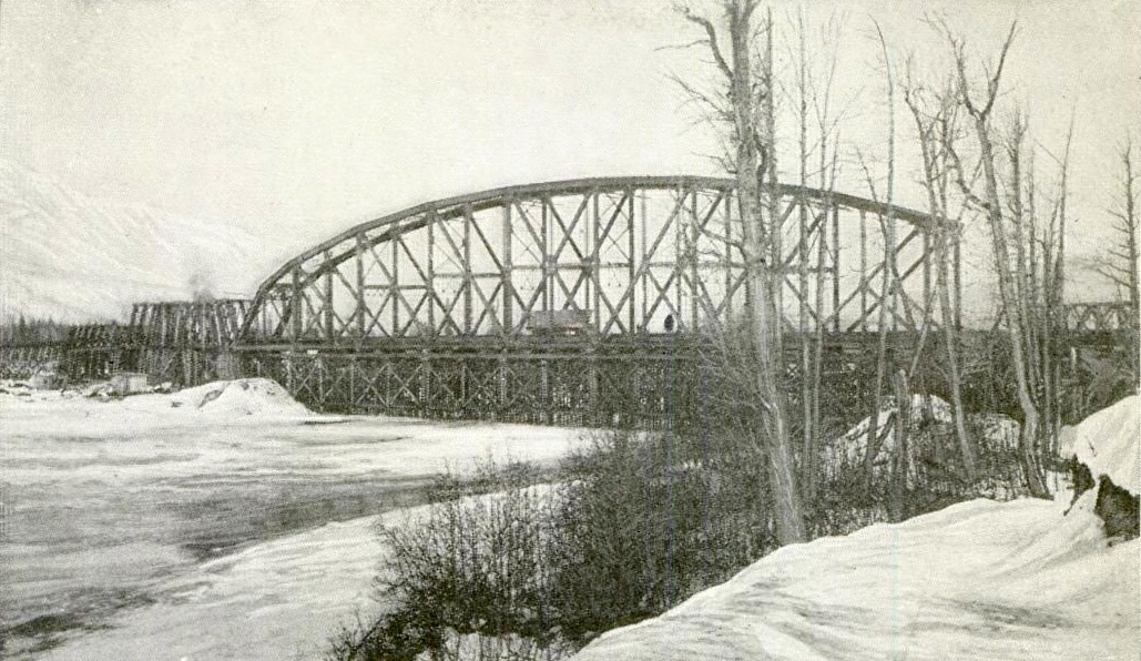 Original Popular Mechanics caption: A view taken just before Christmas, 1920: The Susitna River Bridge under construction during an Alaskan winter, with the steelwork nearly completed. The picture was taken looking west, and downstream.